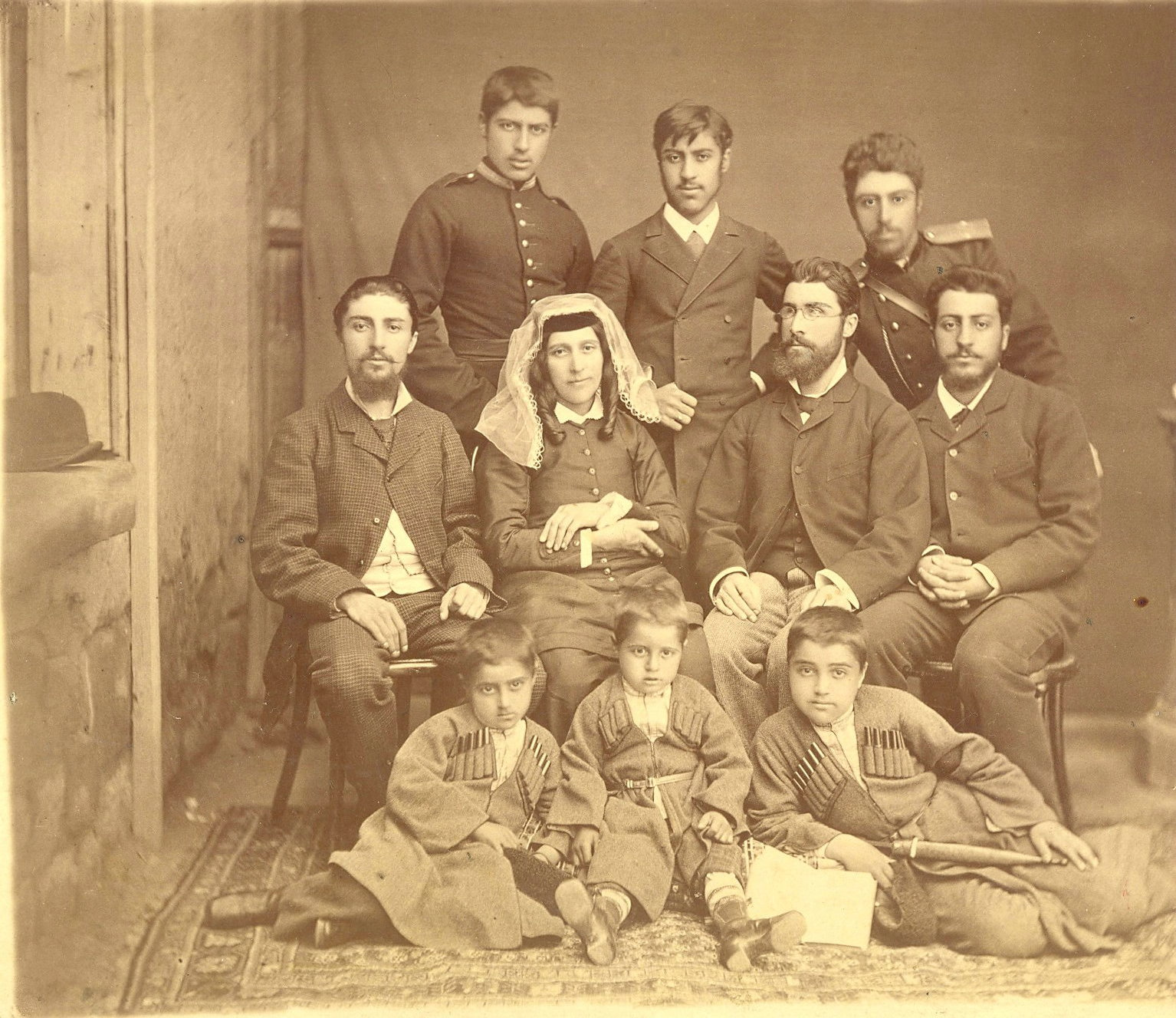 Tigranyan's family. Nikogayos Tigranian, Armeniam composer, who was blind since 9 years old in the center. One of the small boys is Sirakan, future member of The Second State Duma of Russian Empire